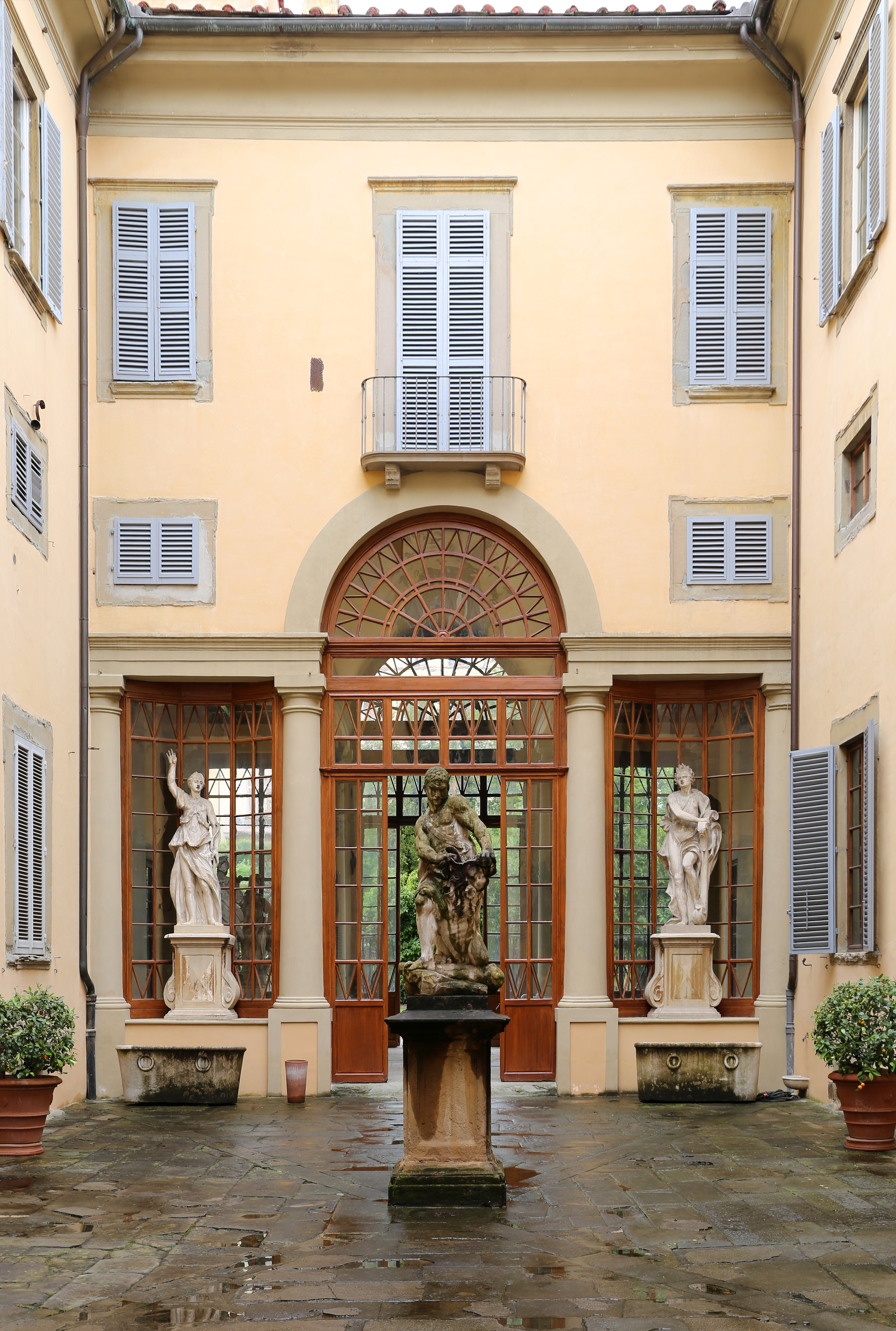 Palazzo Panciatichi Ximenes da Sangallo